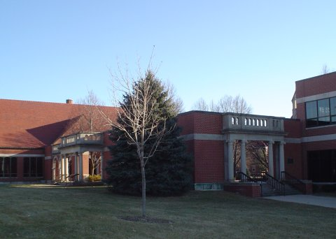 The University of Dubuque, Dubuque, Iowa. I took this photo in February of 2006. Jesster79 01:25, 6 February 2006 (UTC)